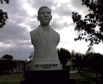 bust gov villavert